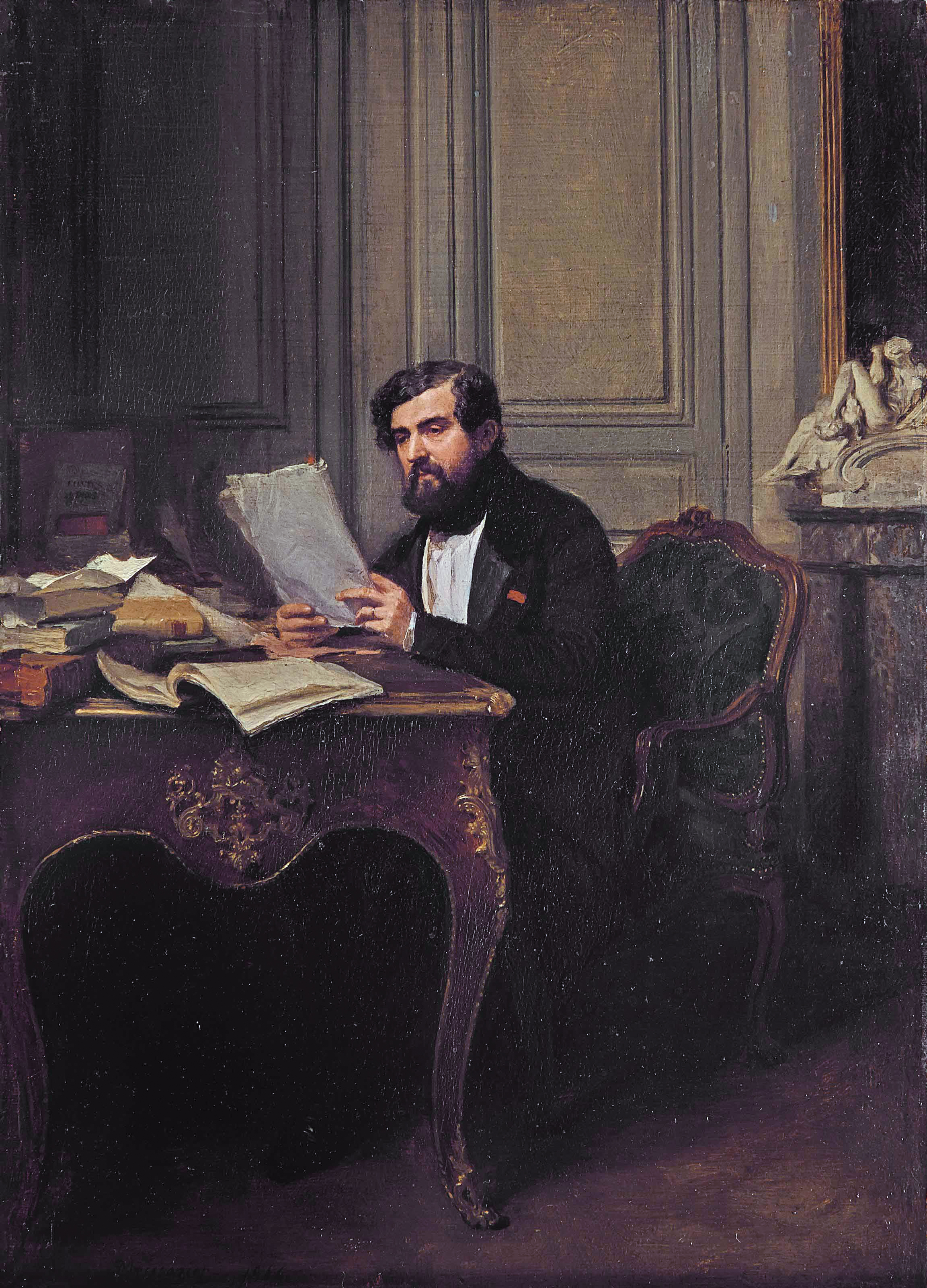 Portrait of Louis de Chevigné